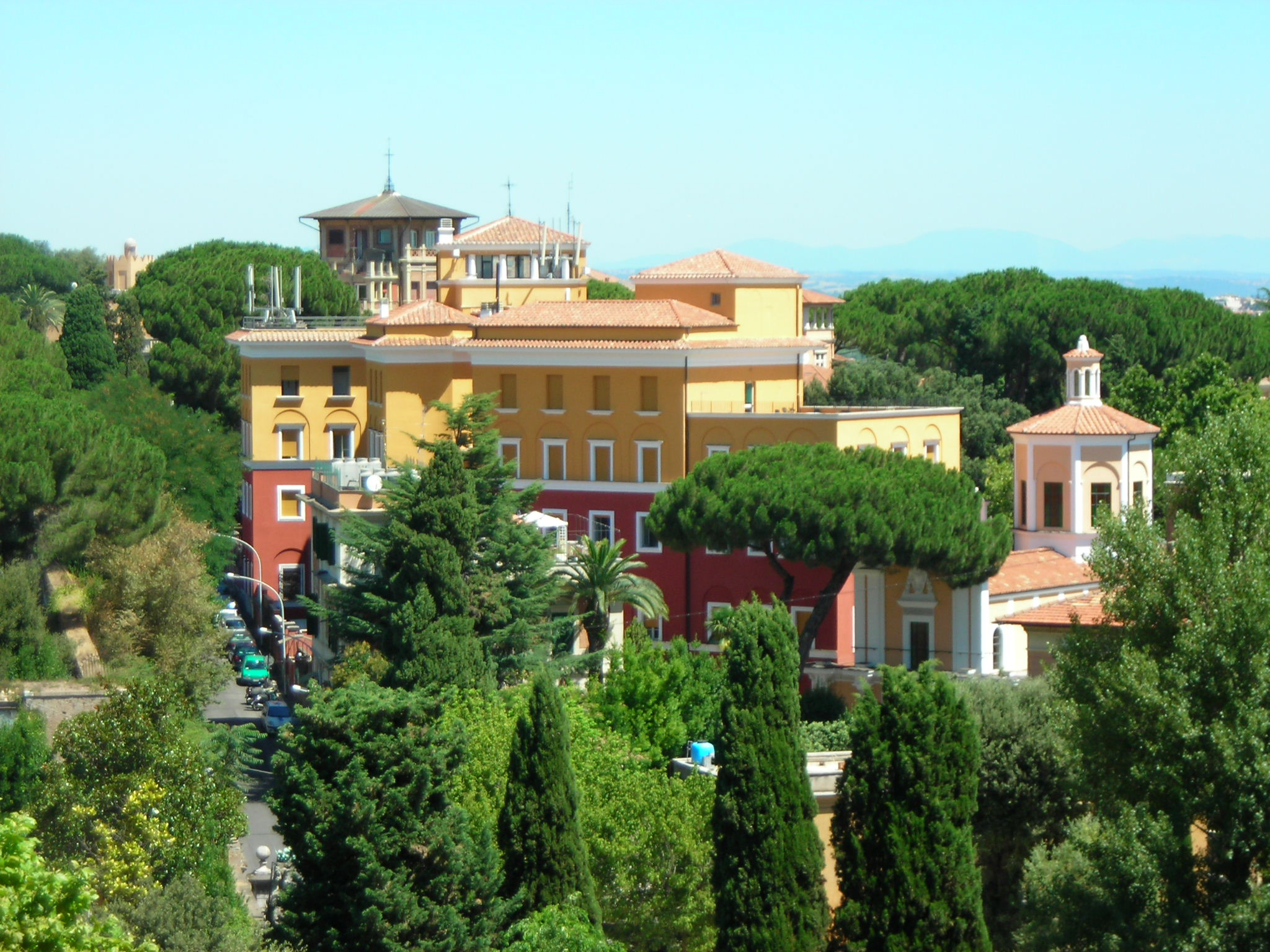 Photo of the American University of Rome main campus from a distance. Building A (foreground)Building B (Background).